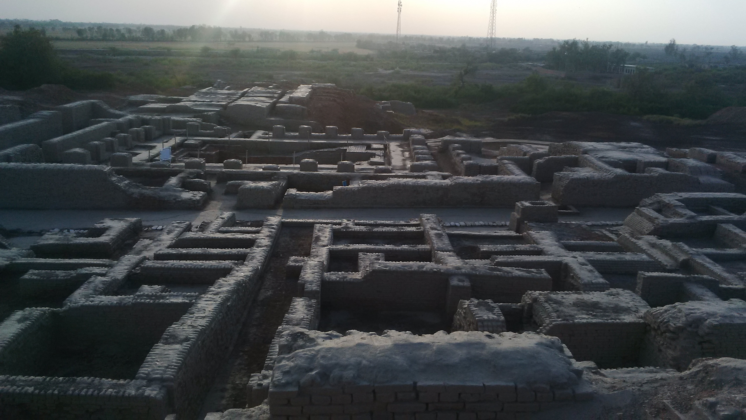 The mond of deads This is a photo of a monument in Pakistan identified as the SD-41